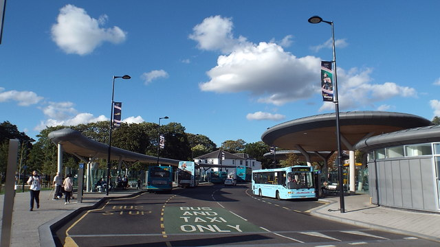 Chatham Waterfront Bus Station